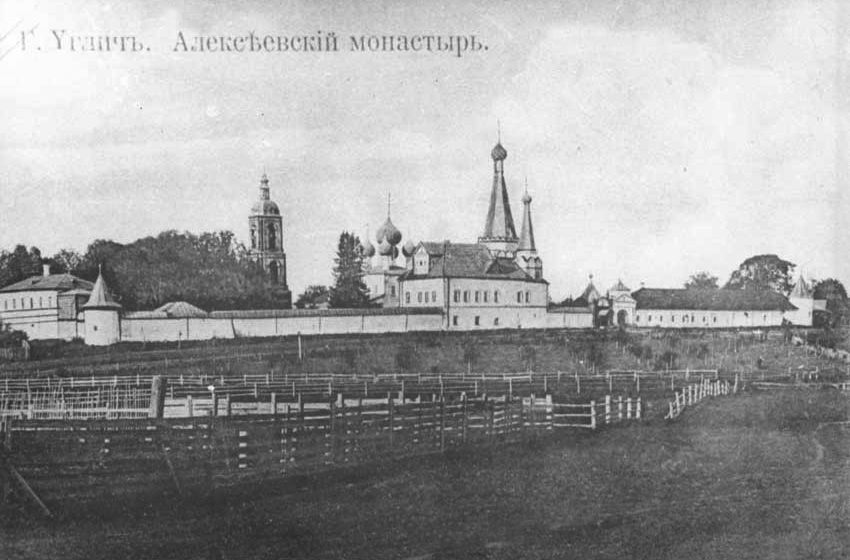 Alexeevsky Monastery in Uglich